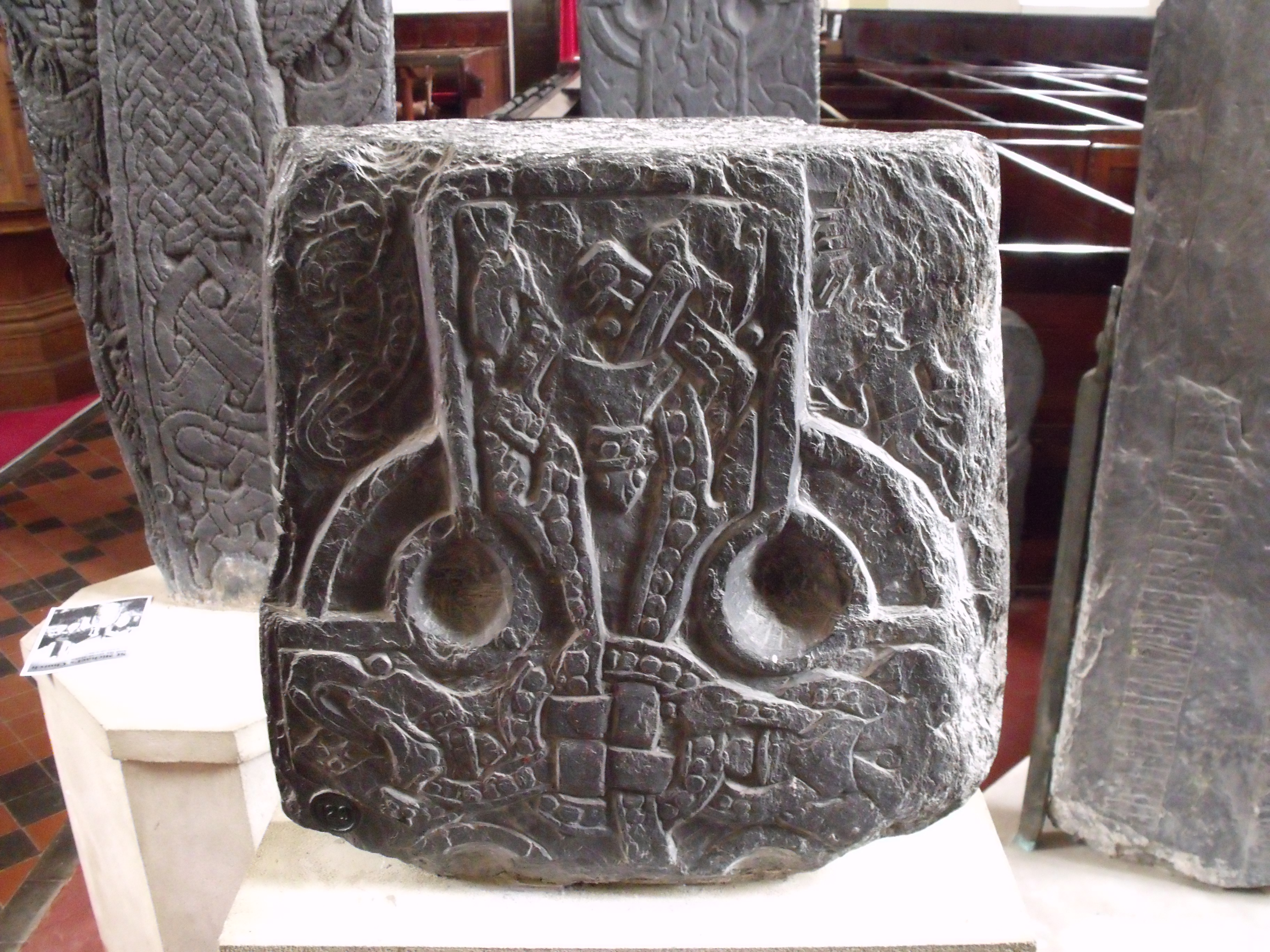 Crucifixion Cross (Kirk Michael IOM)